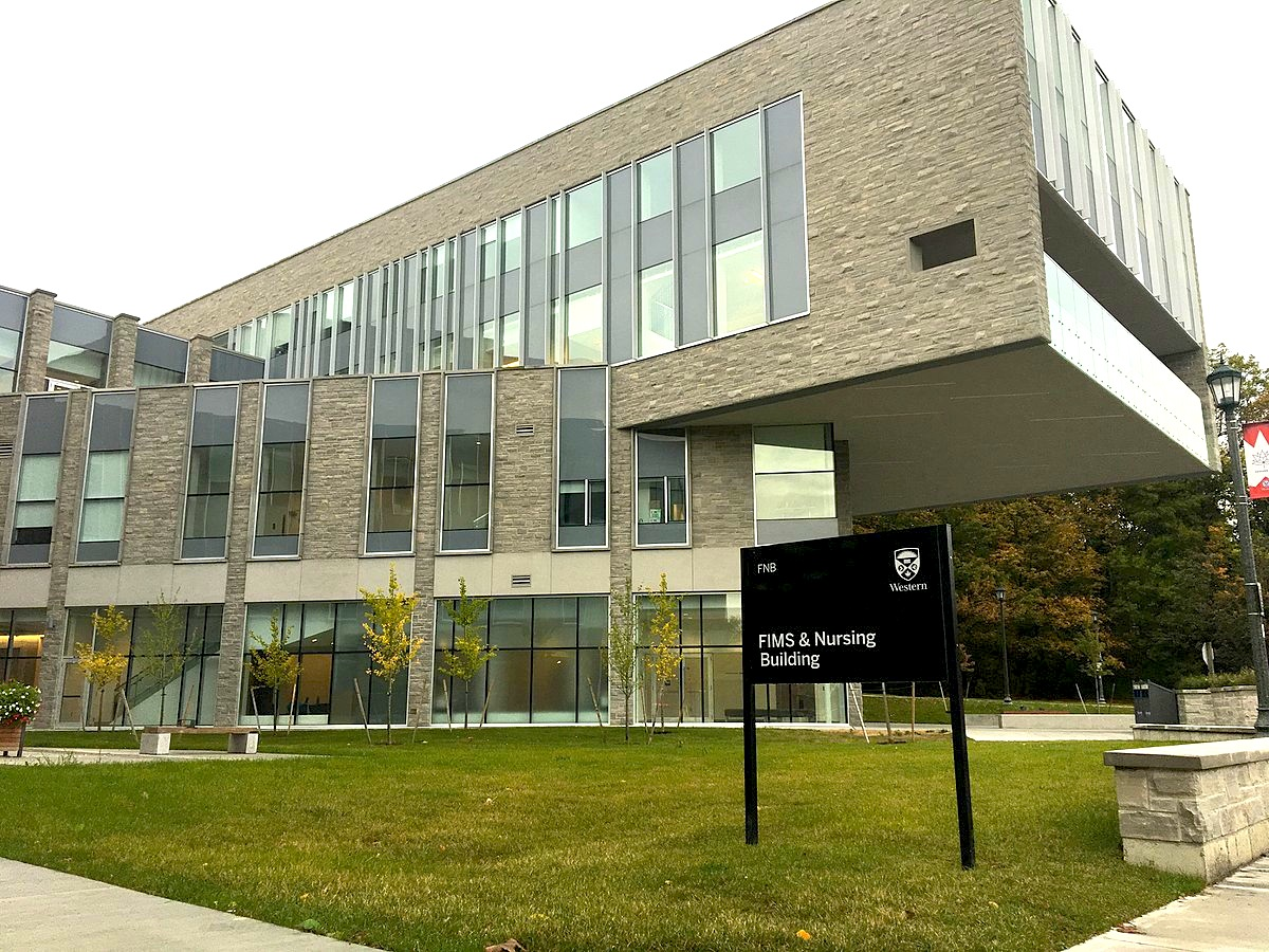 The FIMS & Nursing Building at Western University, which houses the MLIS program.